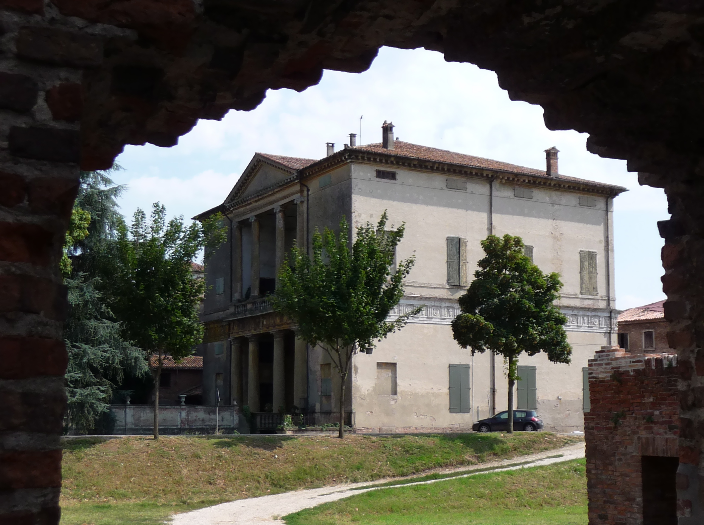 The Villa Pisani is a patrician villa outside the city walls of Montagnana, Veneto, northern Italy. (→Villa Pisani (Montagnana))